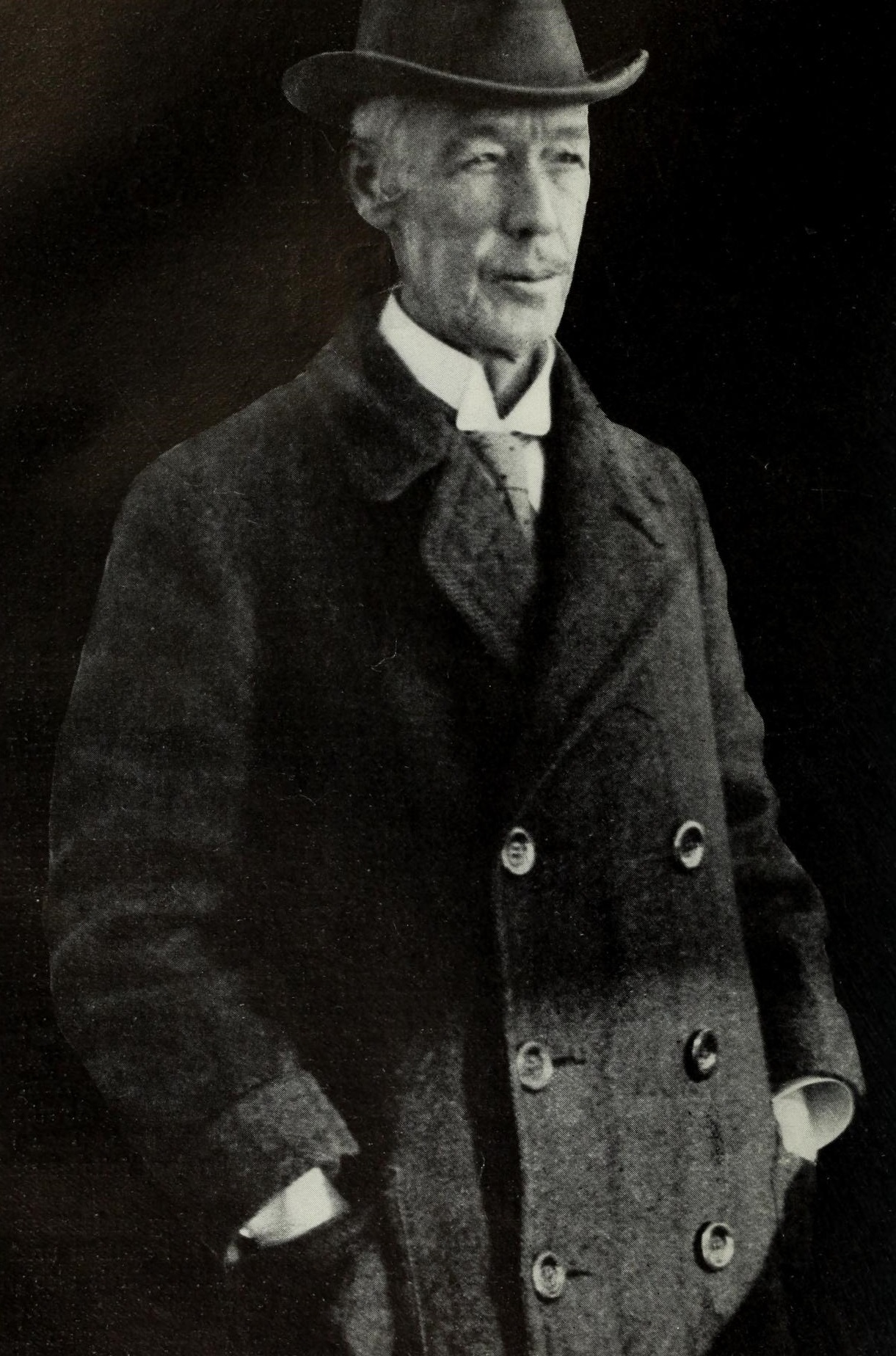 Portrait of William Willcocks